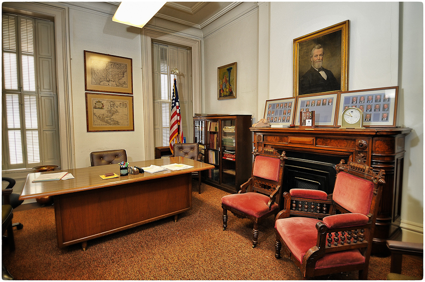 Located on the second floor of the Cabeen House, the president's office is where the CCC board meets and where club files are maintained.